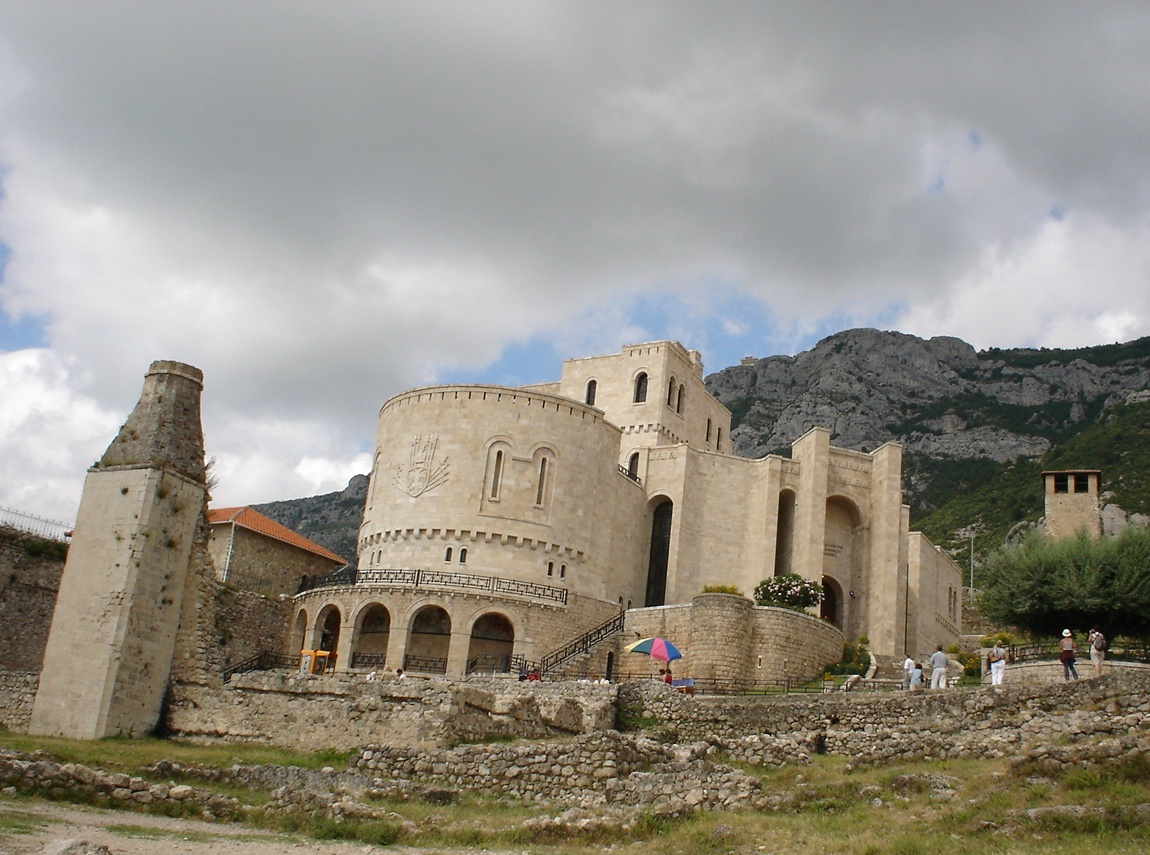 Skanderbeg Museum and the remains of Kruja Castle Location: Kruja, Albania